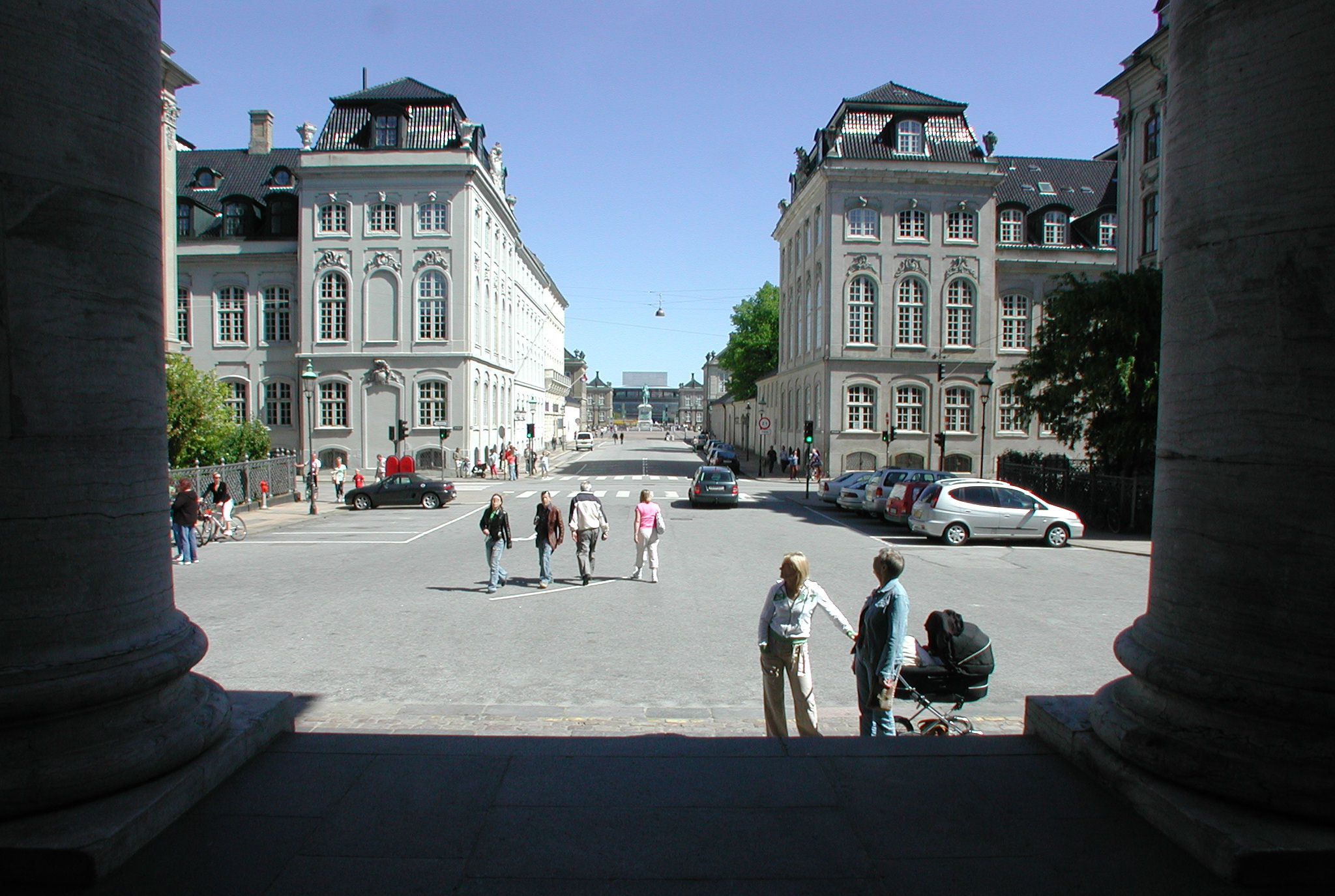 Amalienborg axis as seen from the Marble Church, Copenhagen, Denmark.